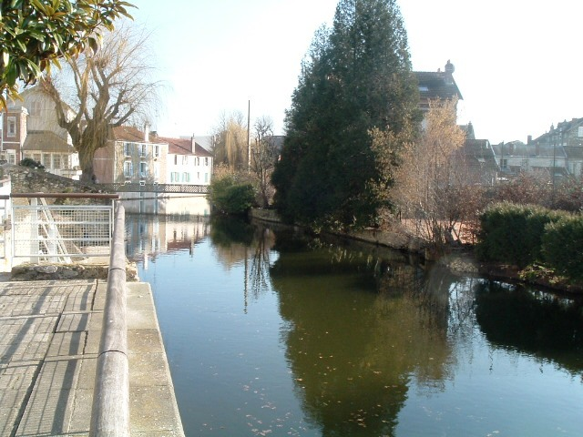 Essonne river in Corbeil-Essonnes